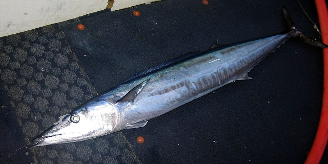 Wahoo, Acanthocybium solandri